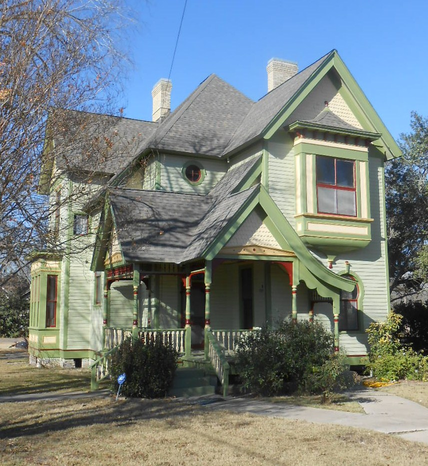 The G.F. Burgess House, located at 803 St. Lawrence St., in Gonzales, Texas was built in 1897 in the Victorian Queen Anne style.